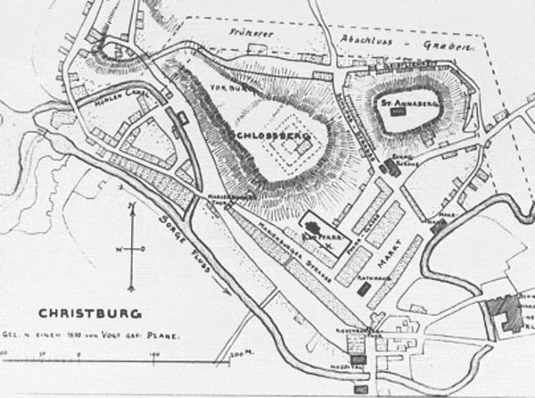 Pre-WWII map of Christburg/Dzierzgoń showing Market Square, Marienburg Street, Castle Mount, St Anne's Mount and Sorge River.